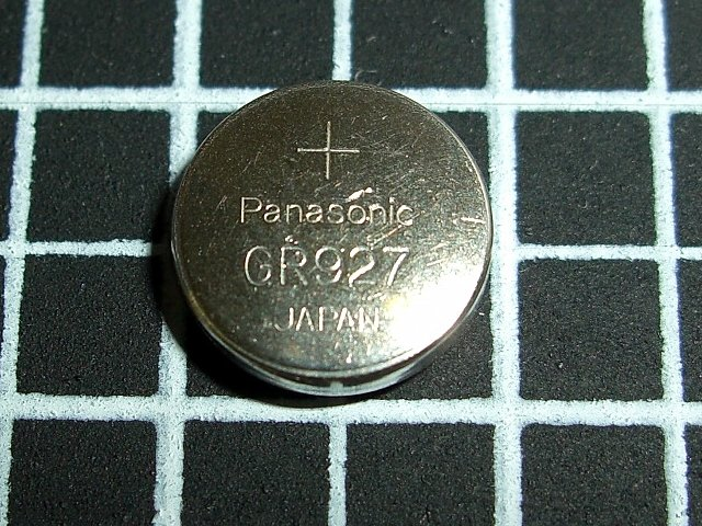 Lithium-Copper oxide battery (Li-CuO) GR927